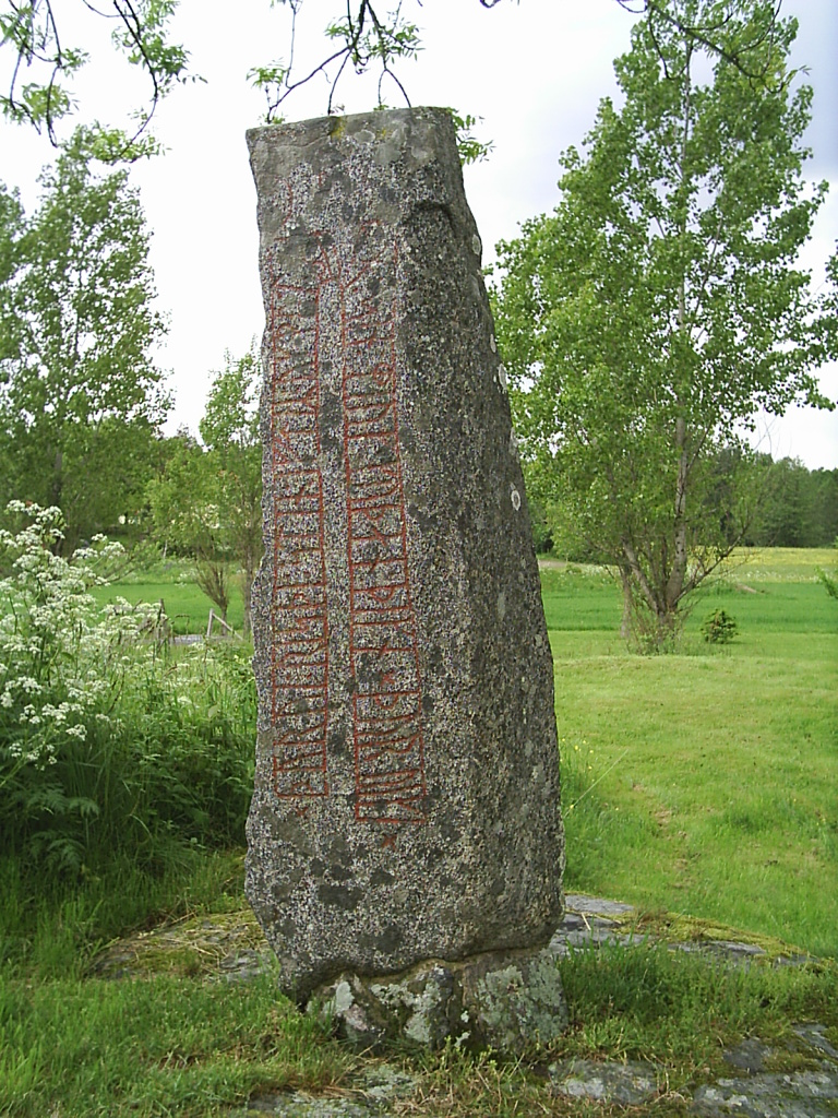 The Velanda runestone (Vg 150, RAÄ-nr Väne-Åsaka 8:1) in Väne-Åsaka parish in Väne hundred in Trollhättan municipality in Västergötland in Sweden.